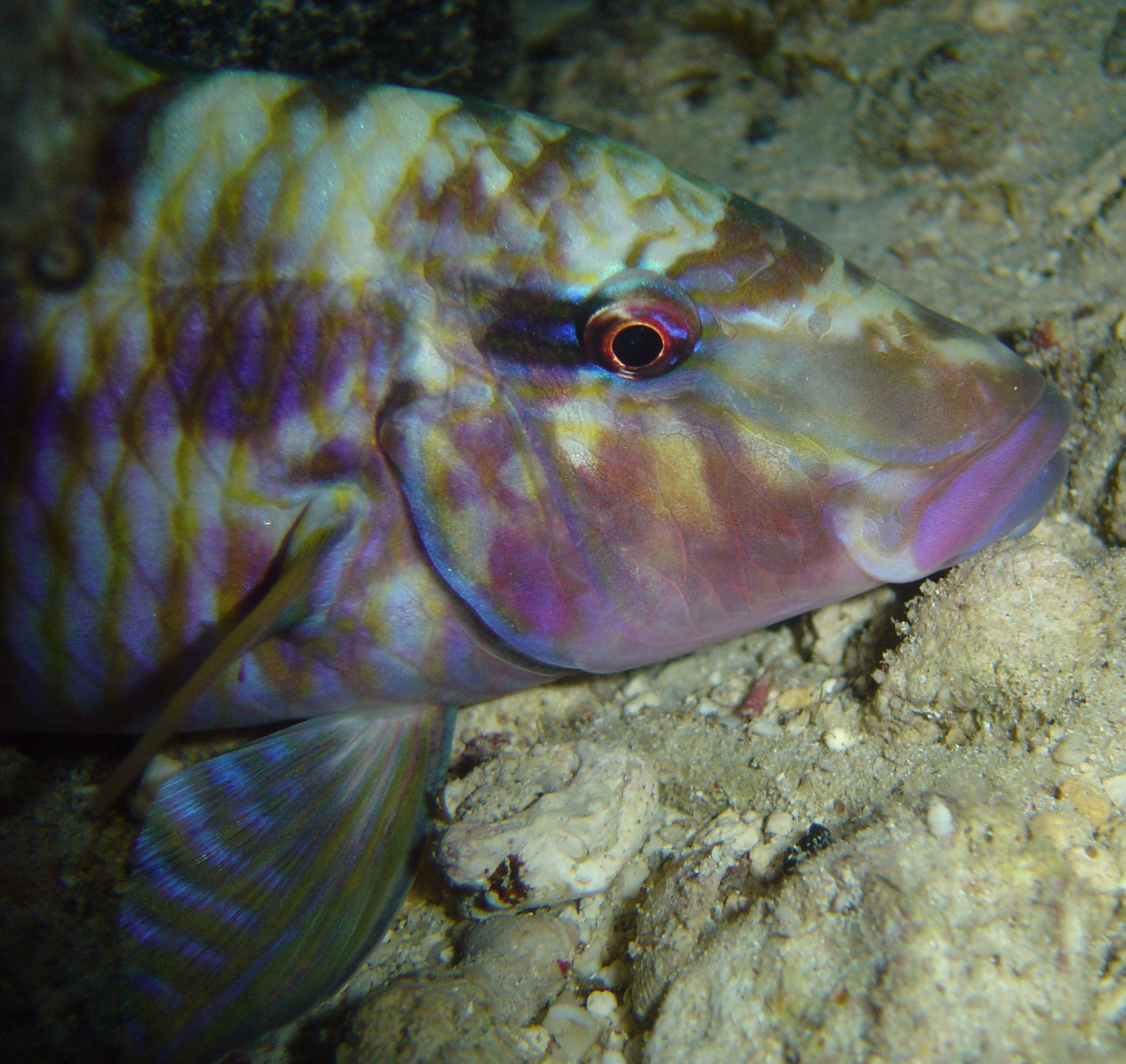 Manybar goatfish (Parupeneus multifasciatus) Image ID: reef0912, NOAA's Coral Kingdom Collection Location: Guam, Mariana Islands